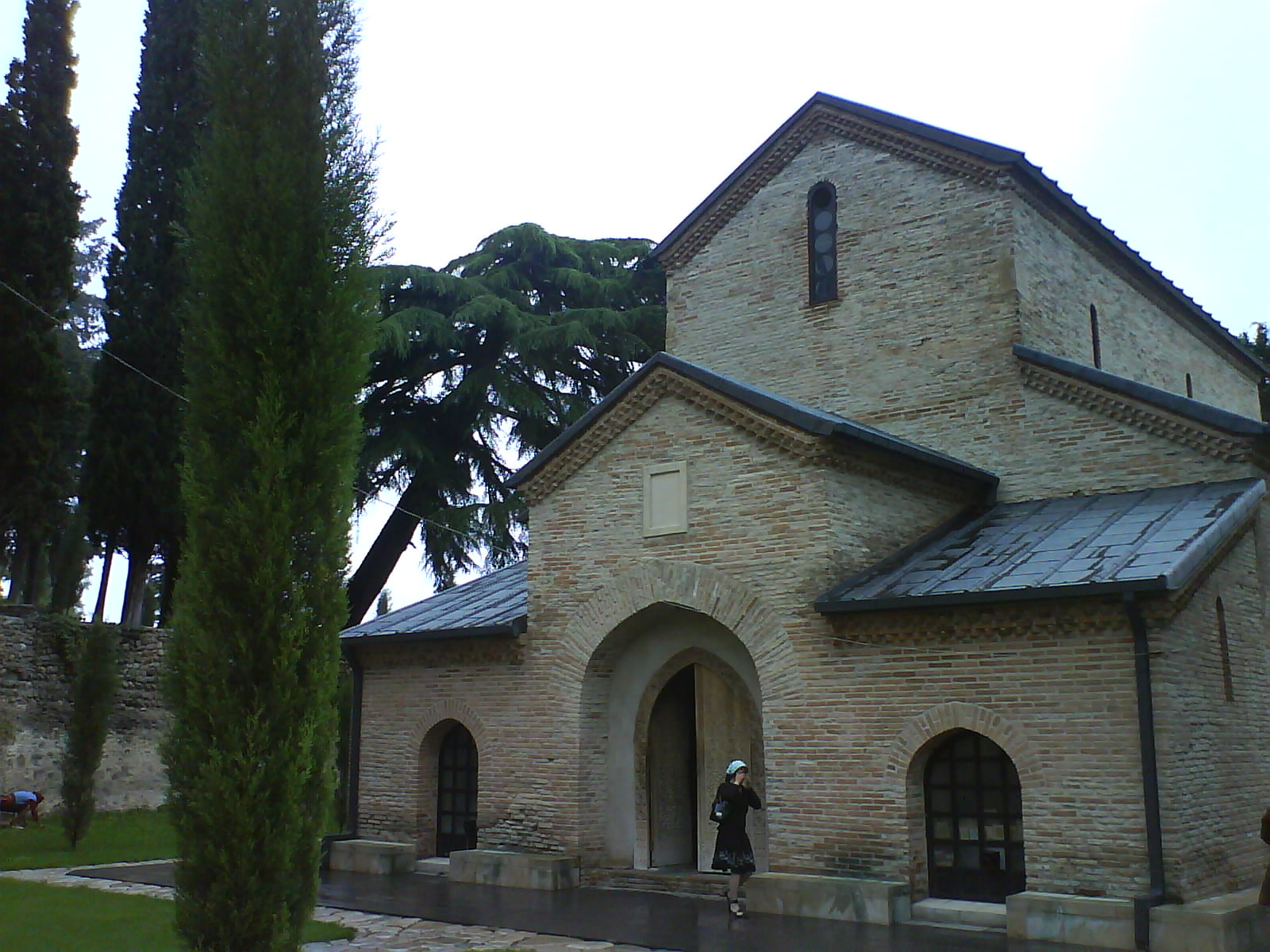 Bodbe Monastry church 11th century, Georgia